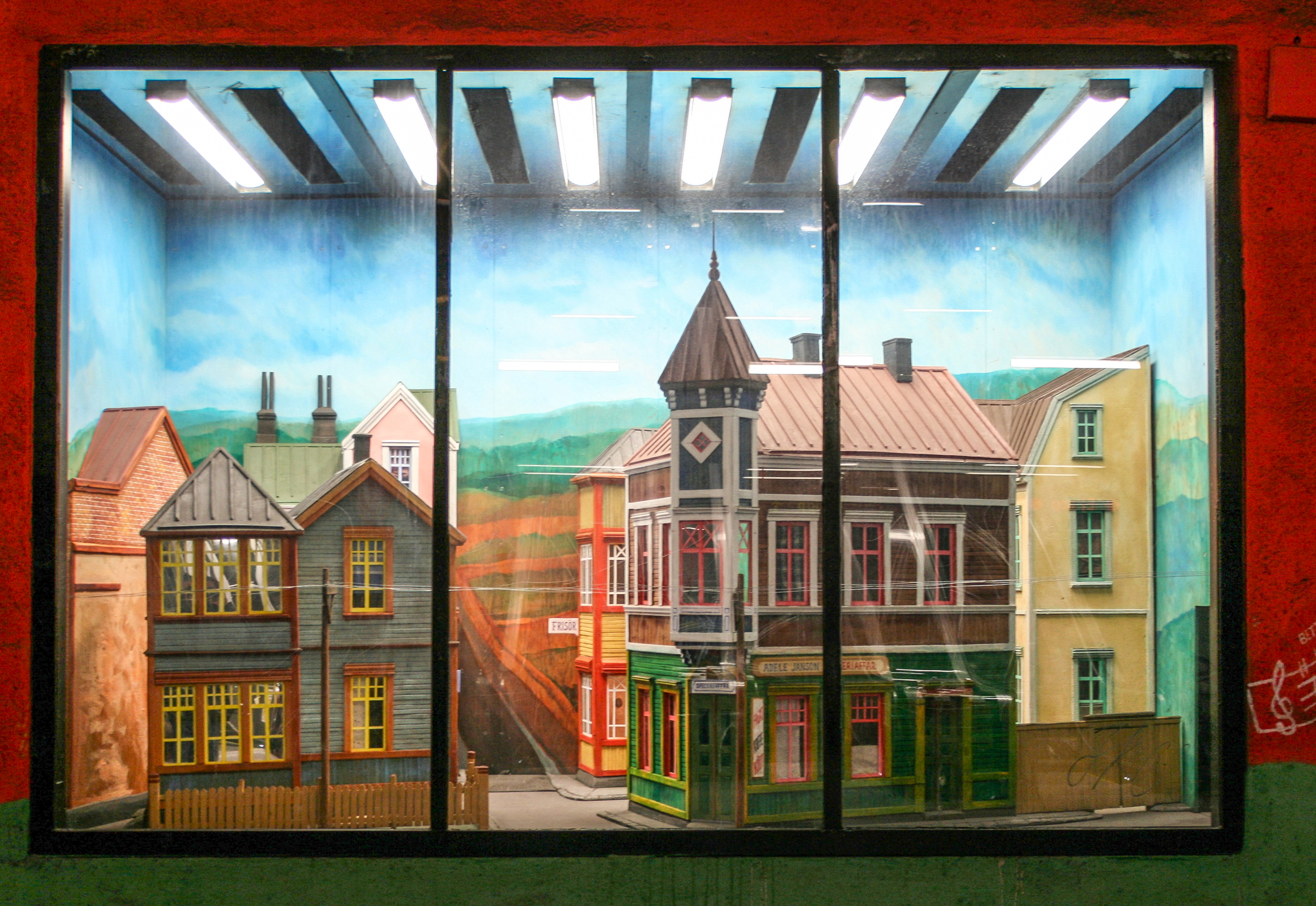 Artwork at the Stockholm metro station Solna centrum